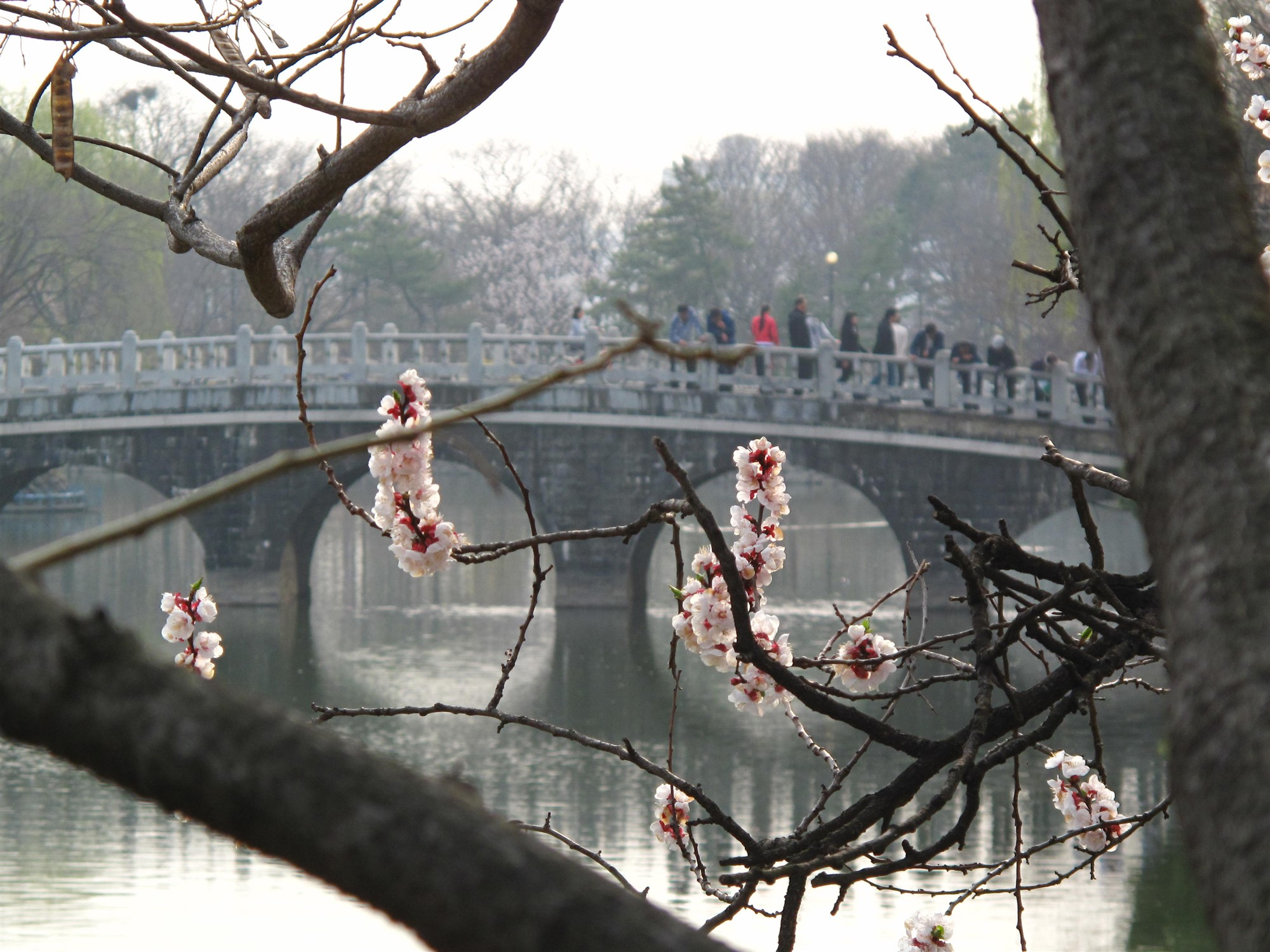 Bridge over the lake in Duryu Park, Daegu, South Korea